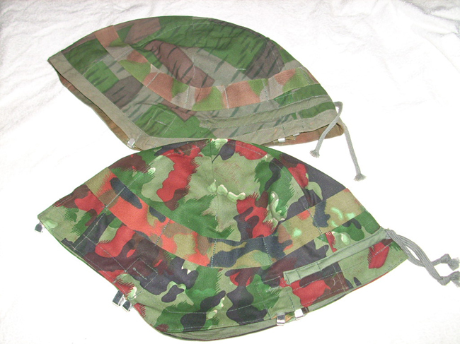 Two Swiss models of camouflage cover